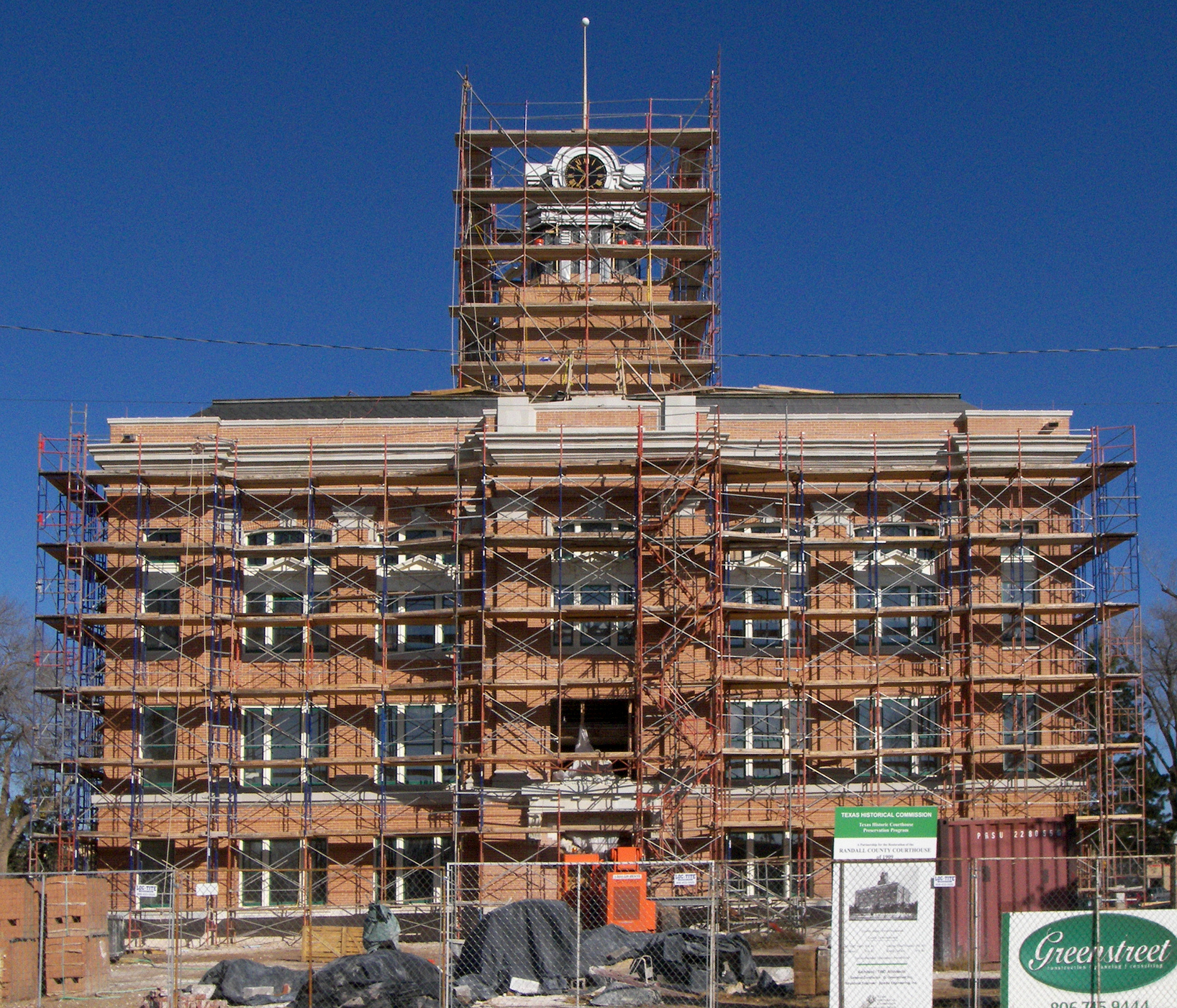 The Randall County Courthouse, 400 16th St, Canyon, Texas, United States.